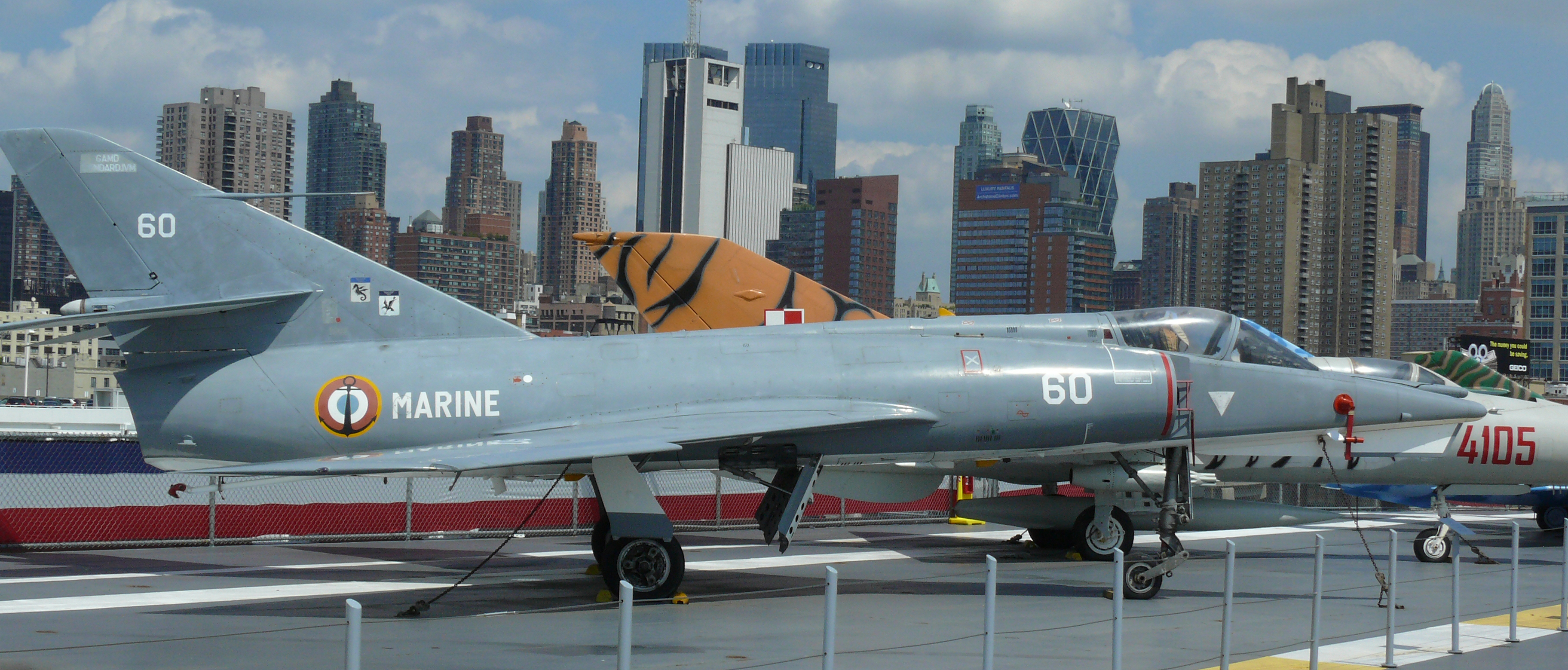 Dassault Etendard IV M in the Intrepid Sea-Air-Space Museum (M for Marine -Navy). The Dassault Étendard IV is a supersonic carrier-borne strike fighter aircraft designed for service with the French Navy.